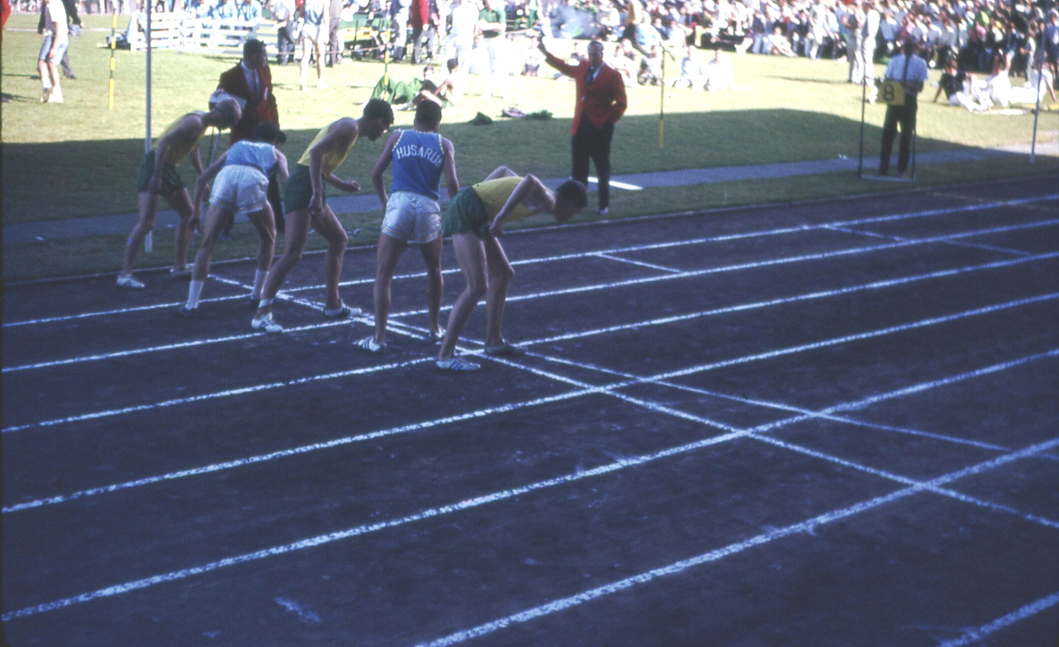 The start of a track and field dual meet two mile run between the Oregon Ducks and the UCLA Bruins. From the inside lane (left) to the outside lane (right) are: Bruce Mortenson (Oregon), Geoff Pyne (UCLA), Bob Williams (Oregon), George Husaruk (UCLA), and Kenny Moore (Oregon).